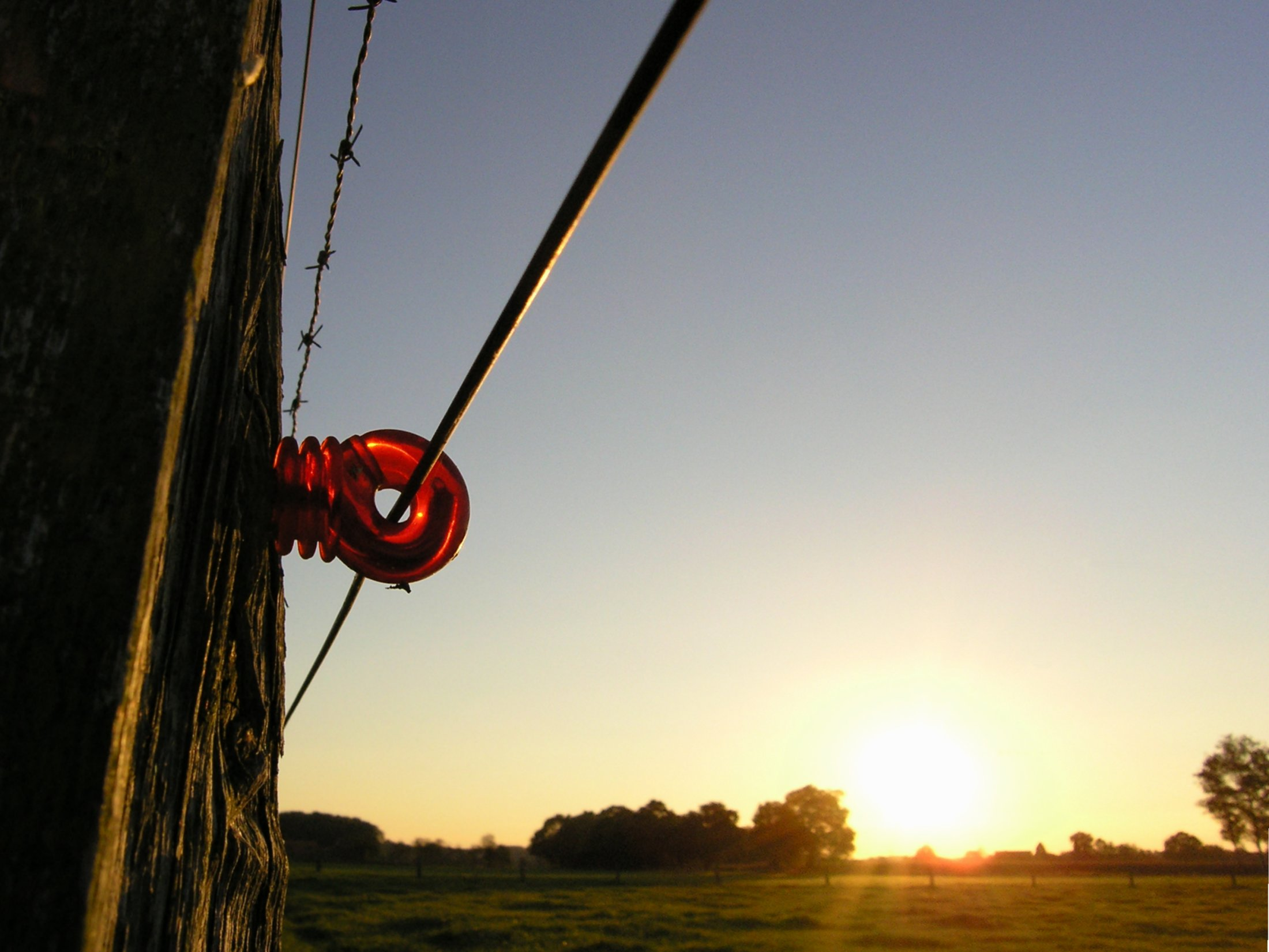 Electric fence. Electrical insulation. Location: Münster, NRW, Germany